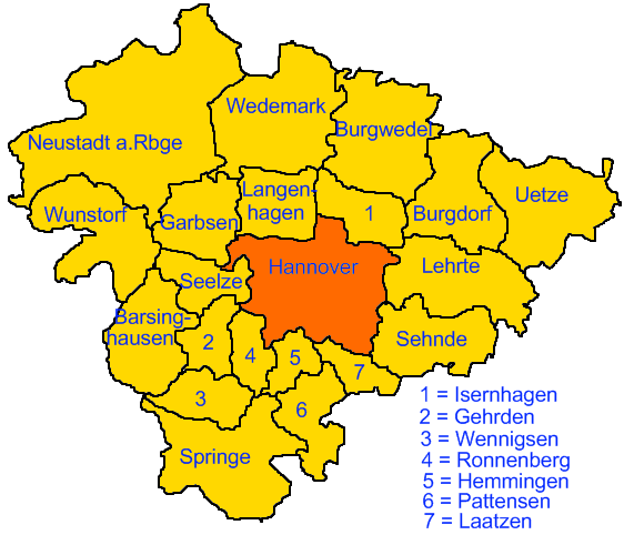 Location of Hannover in Region Hannover